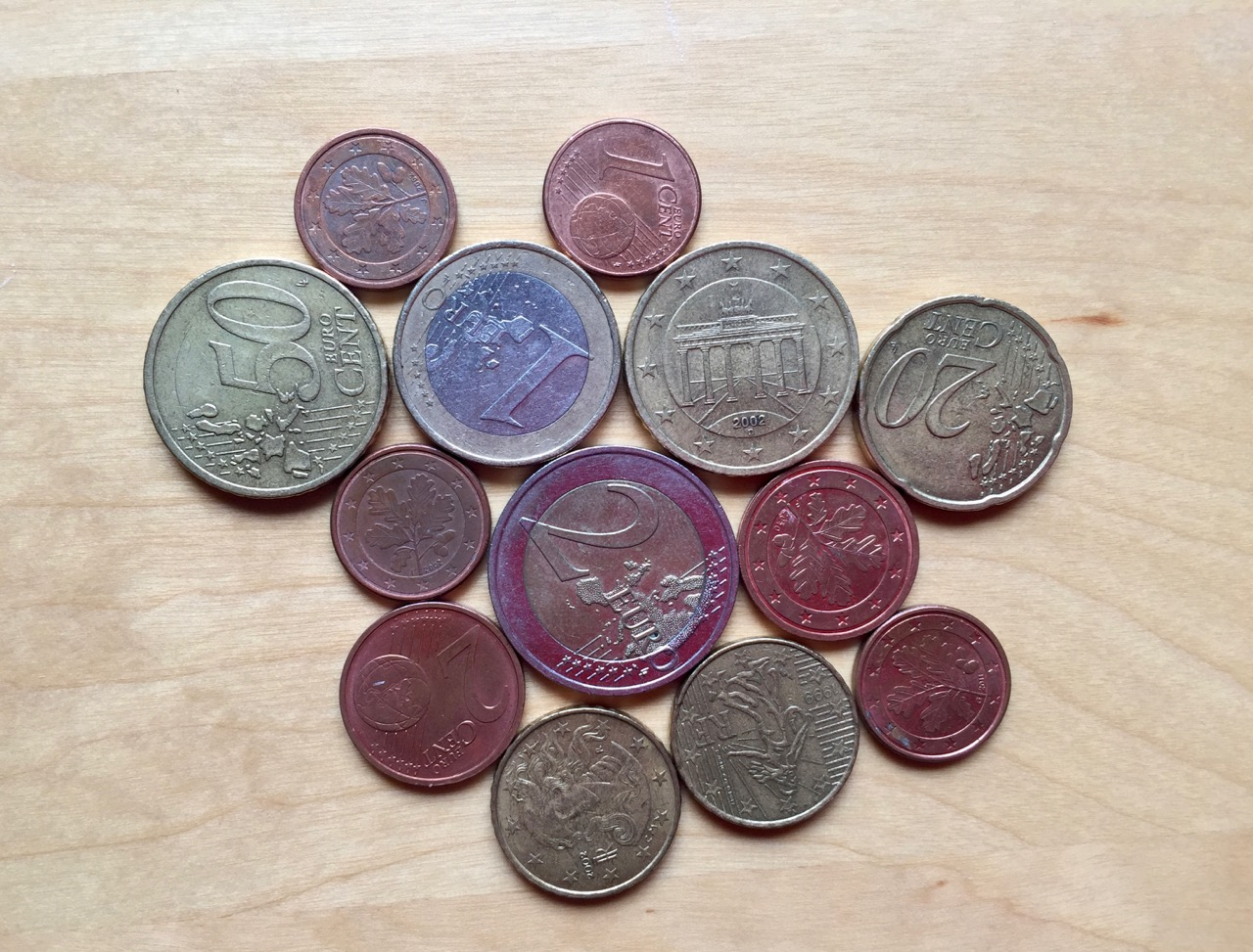 Example with coins of circle packing on a flat surface.